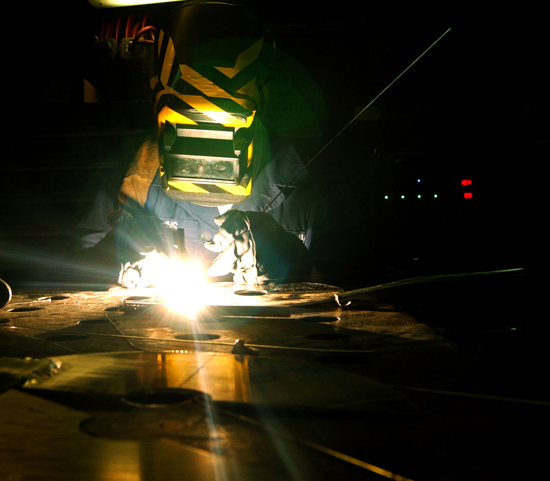 Persian Gulf (May 15, 2005) – Hull Technician Fireman Jaime Watkins tig-welds clamshell locks for doors aboard the Nimitz-class aircraft carrier USS Carl Vinson (CVN 70). The Carl Vinson Carrier Strike Group is currently deployed conducting operations in support of multi-national forces in Iraq and maritime security operations in order to set the conditions for security and stability in the region. Vinson will end its deployment with a homeport shift to Norfolk, Va., and commence a three-year refuel and complex overhaul. U.S. Navy photo by Photographer's Mate Airman Crystal M. Vigil (RELEASED)